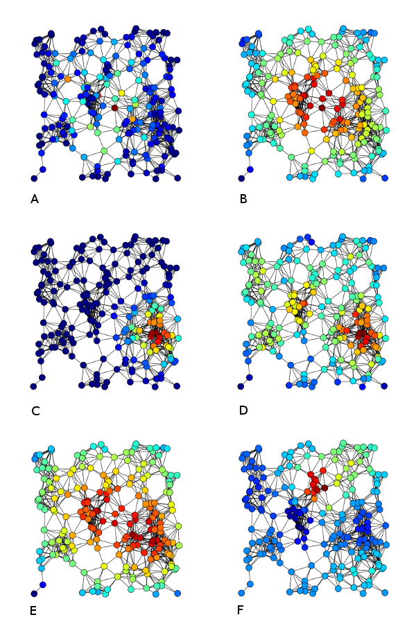 These are six centrality measures on the same graph.